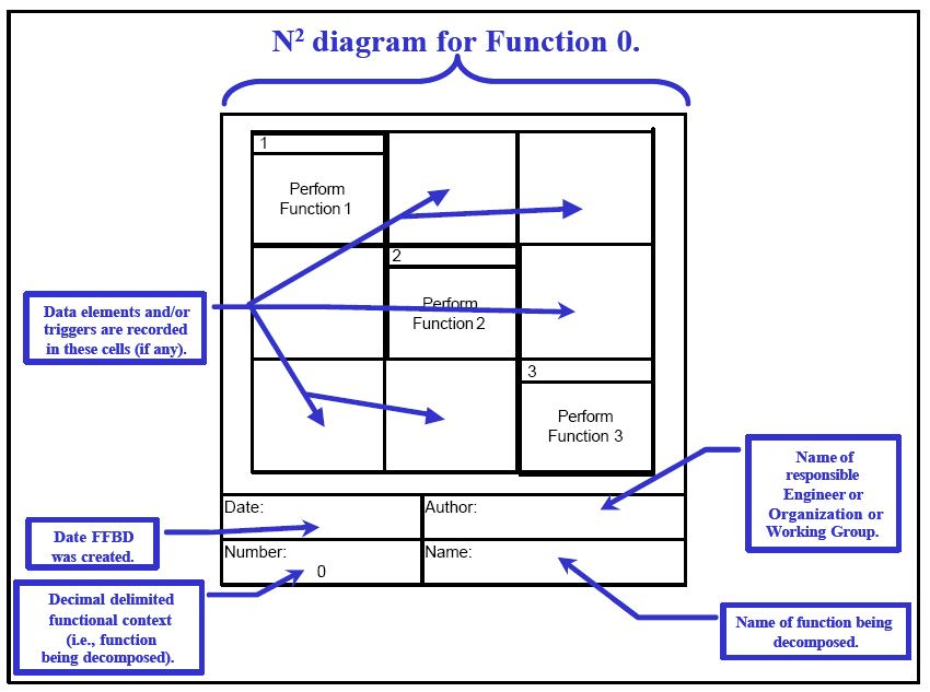 11 N2 Diagram